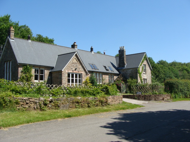 Former school building, Catbrook